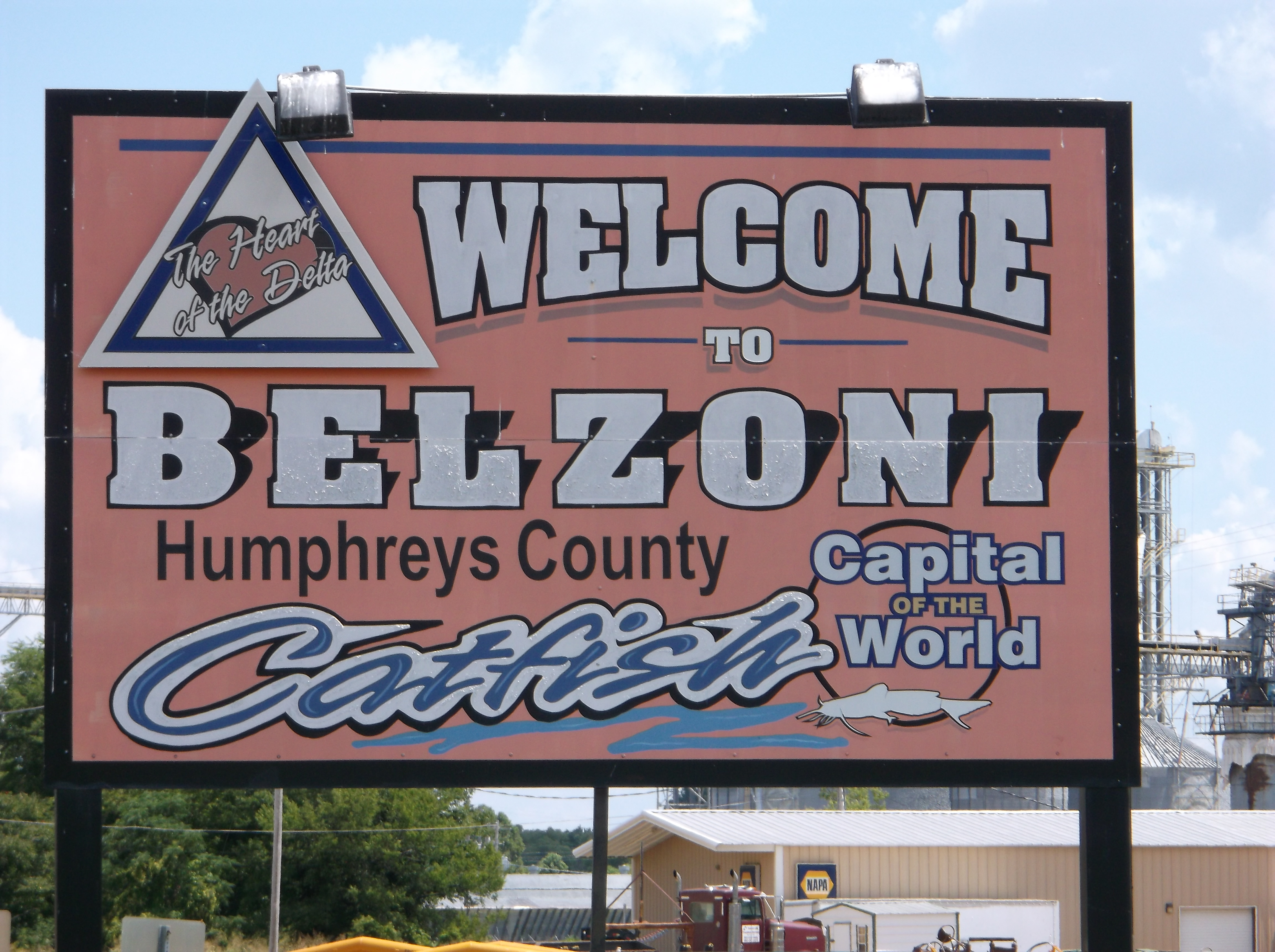 Welcome sign located on US Highway 49W